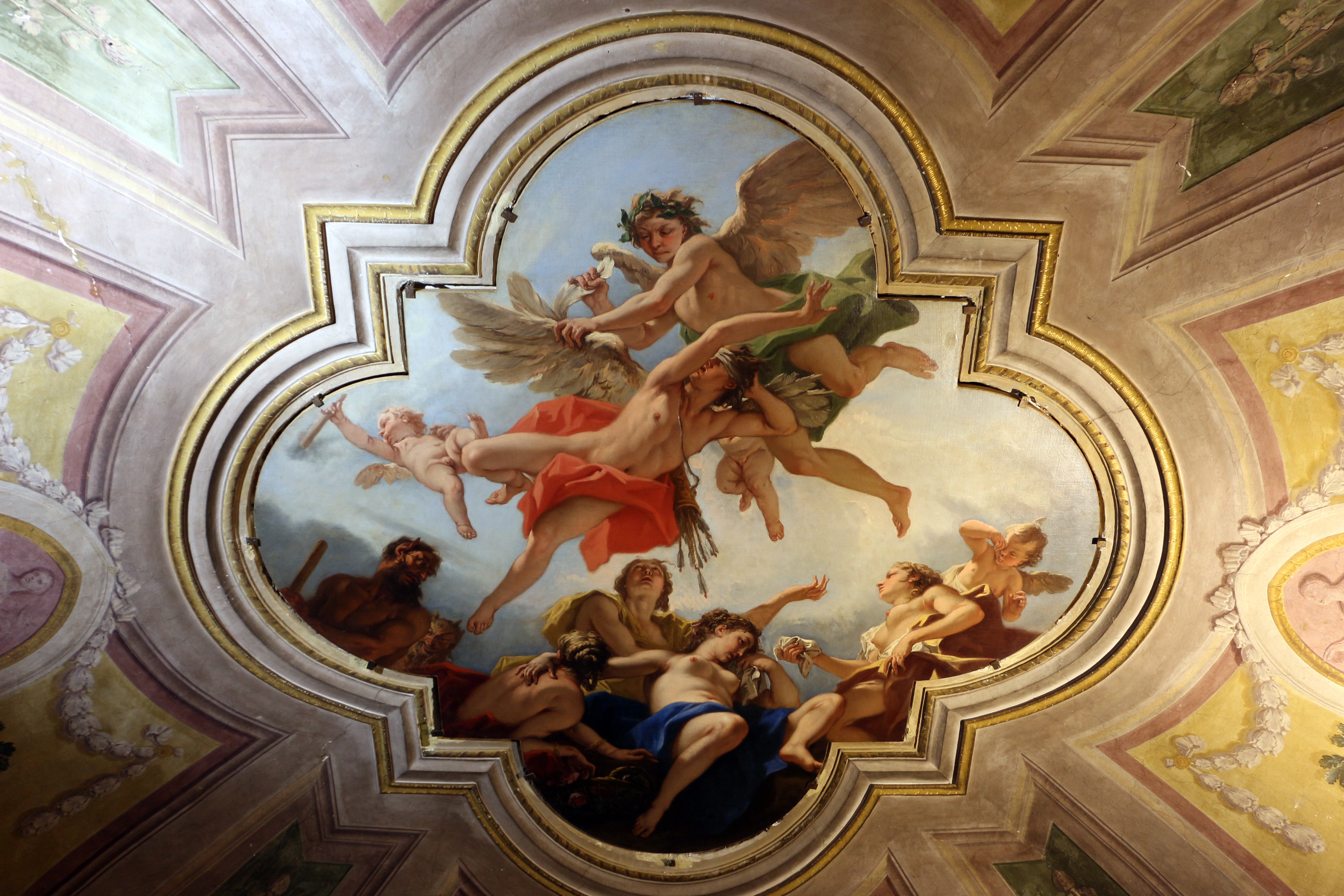 Punishment of Cupid by Sebastiano Ricci